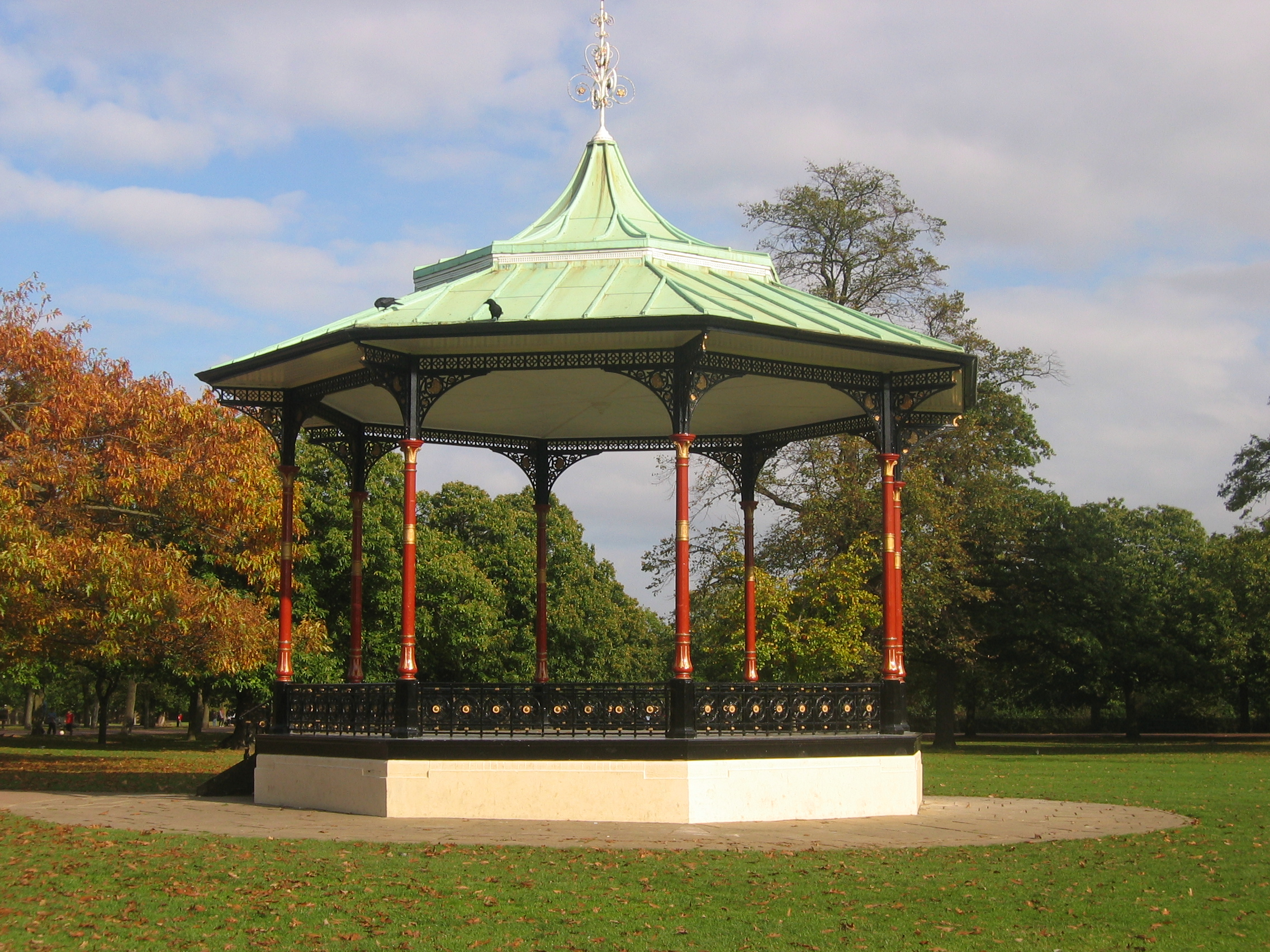 Bandstand pavilion in Greenwich Park — London. Oct 07.